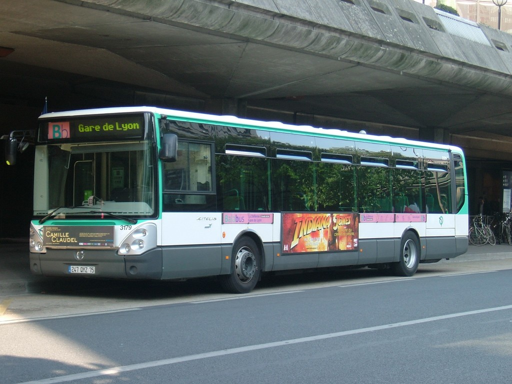 Citelis Line on Balabus line at Gare de Lyon station.